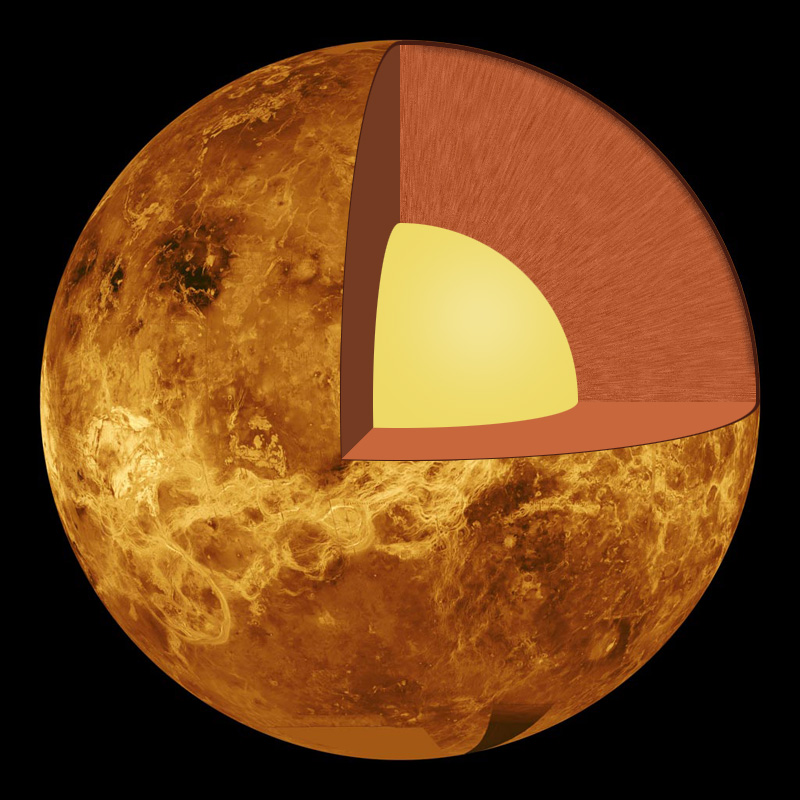 The inner structure of Venus – the crust (thin outer brown layer), the mantle (red middle layer) and the core (yellow inner layer)